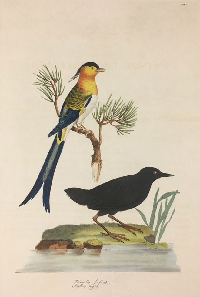 llustration by John Frederick Miller, (1715-1790), from his 'Cimelia physica: Figures of rare and curious quadrupeds, birds, &c. Together with several of the most elegant plants', published in 1796.